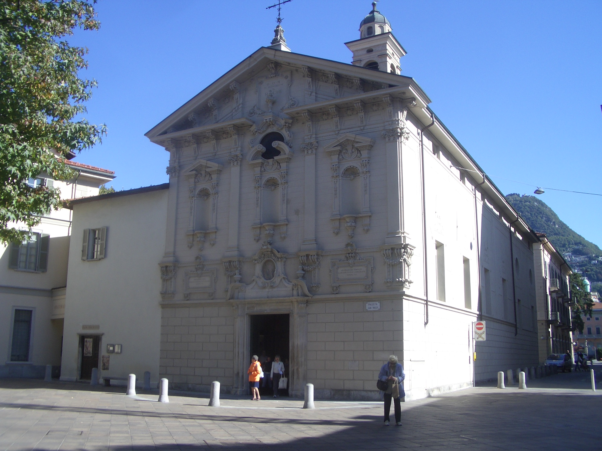 Lugano, Church of San Rocco, facade